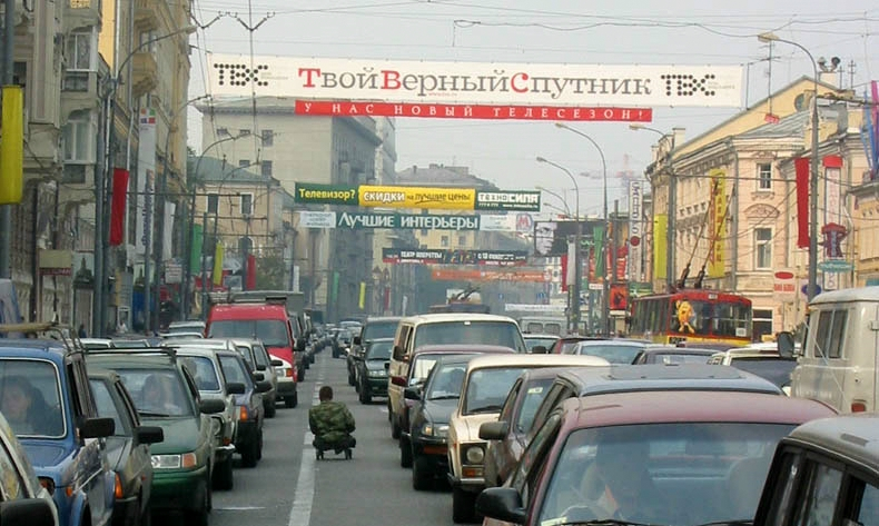 Prospect Mira (Sukharevskaya) and TVS channel advertisement